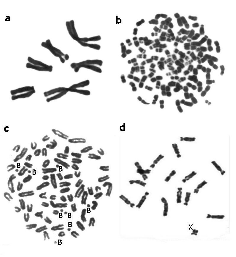 a. Metaphase spread of the Indian muntjac (Muntiacus muntjak vaginalis, 2n = 6, 7), the species with the lowest chromosome number. b. Metaphase spread of the Viscacha rat (Tympanoctomys barrerae, 2n = 102), the species with the highest chromosome number. c. Metaphase spread of the Siberian Roe deer (Capreolus pygargus, 2n = 70 + 1-14 B's). The species with additional, or B- chromosomes. d. Metaphase spread of the Transcaucasian mole vole female (Ellobius lutescens, 2n = 17, X0 in both sexes).